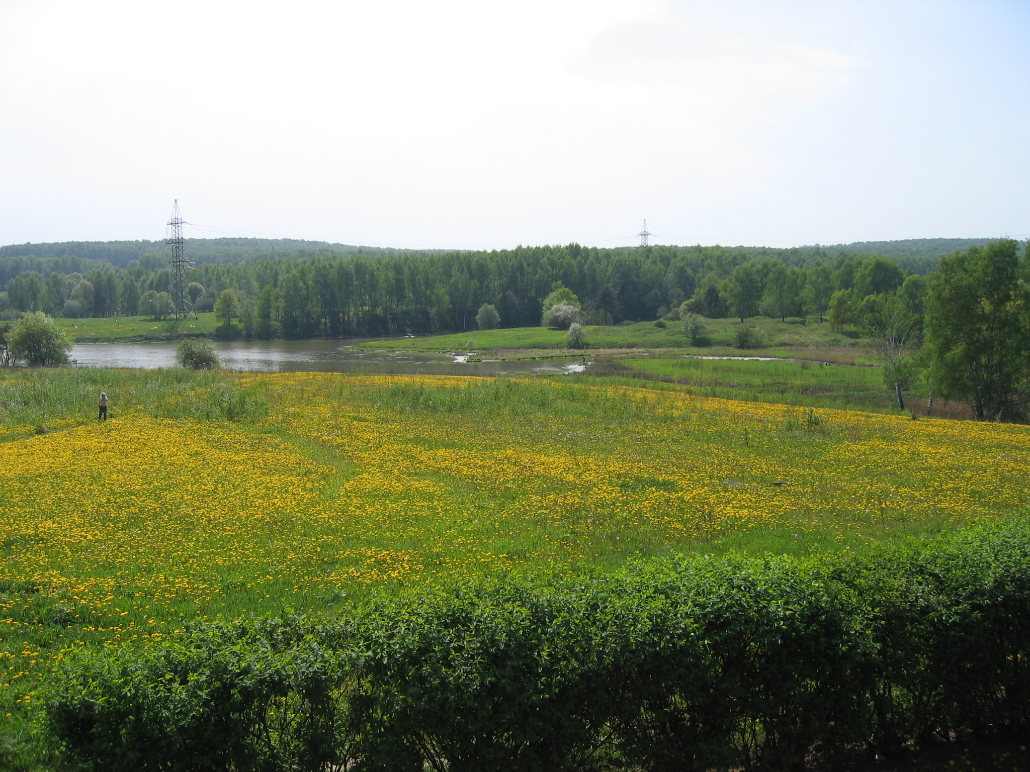 Bittsevsky Park in Moscow